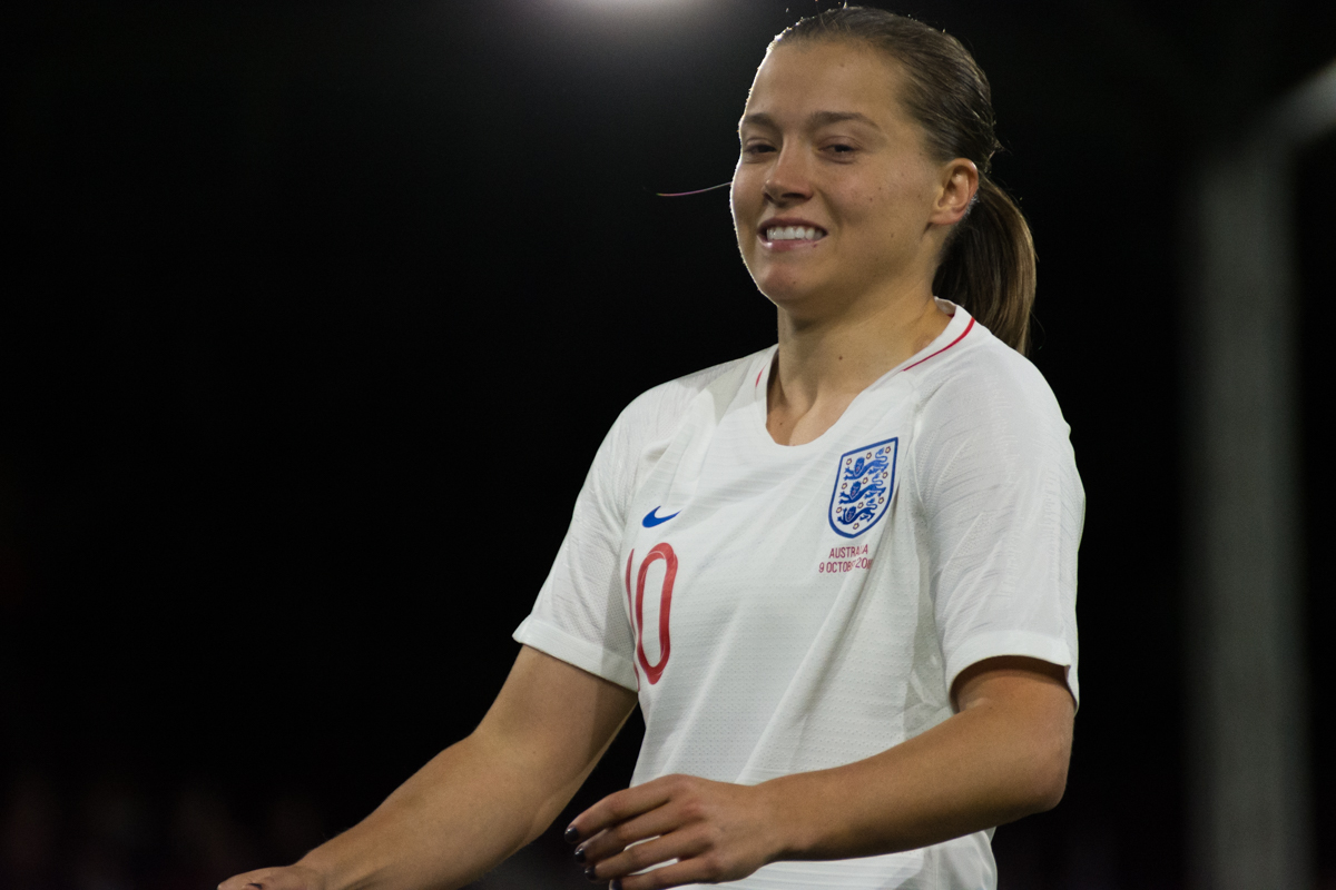 Fran Kirby vs Australia on 9 October 2018